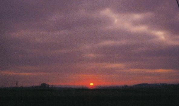 Sunset over Stewarton, Ayrshire